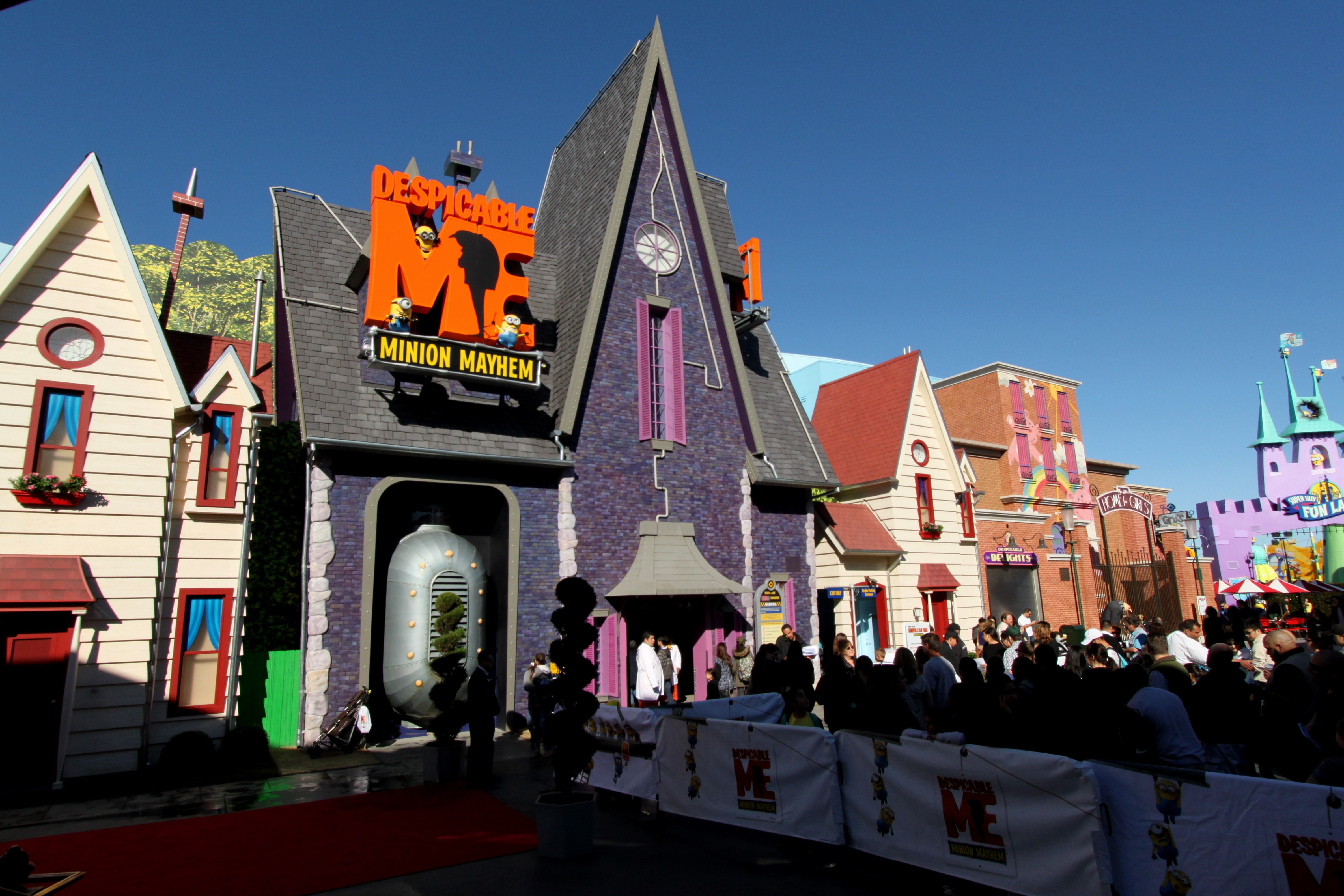 Special preview day of Despicable Me: Minion Mayhem at Universal Studios Hollywood, California.